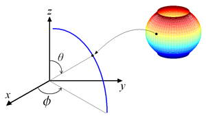 Figure of polar coordinate system